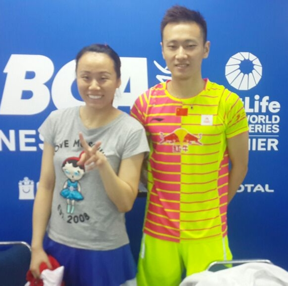 Zhao Yunlei (left) and Zhang Nan during a press conference at the 2016 Indonesia Open